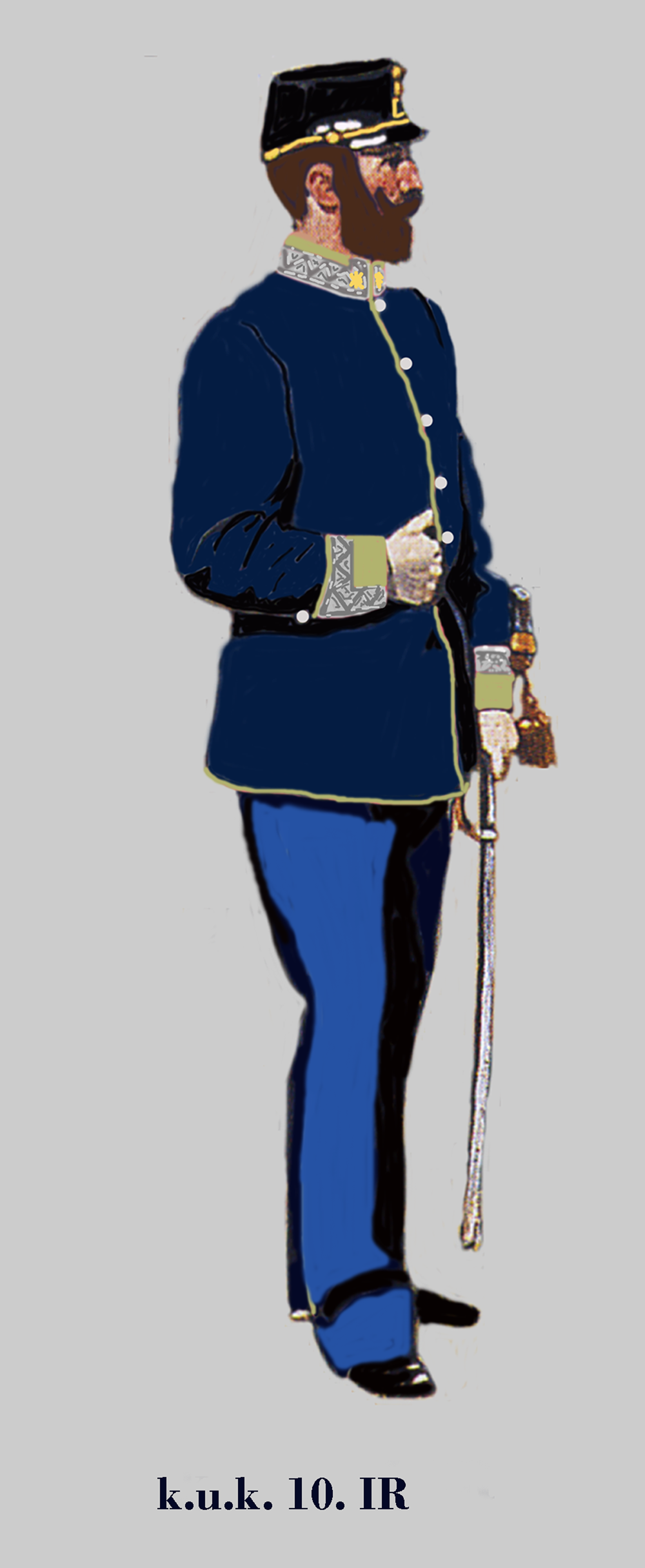 Major of the Austria-Hungarian (k.u.k.). 10th german Infantry Regiment in Service dress. 1914